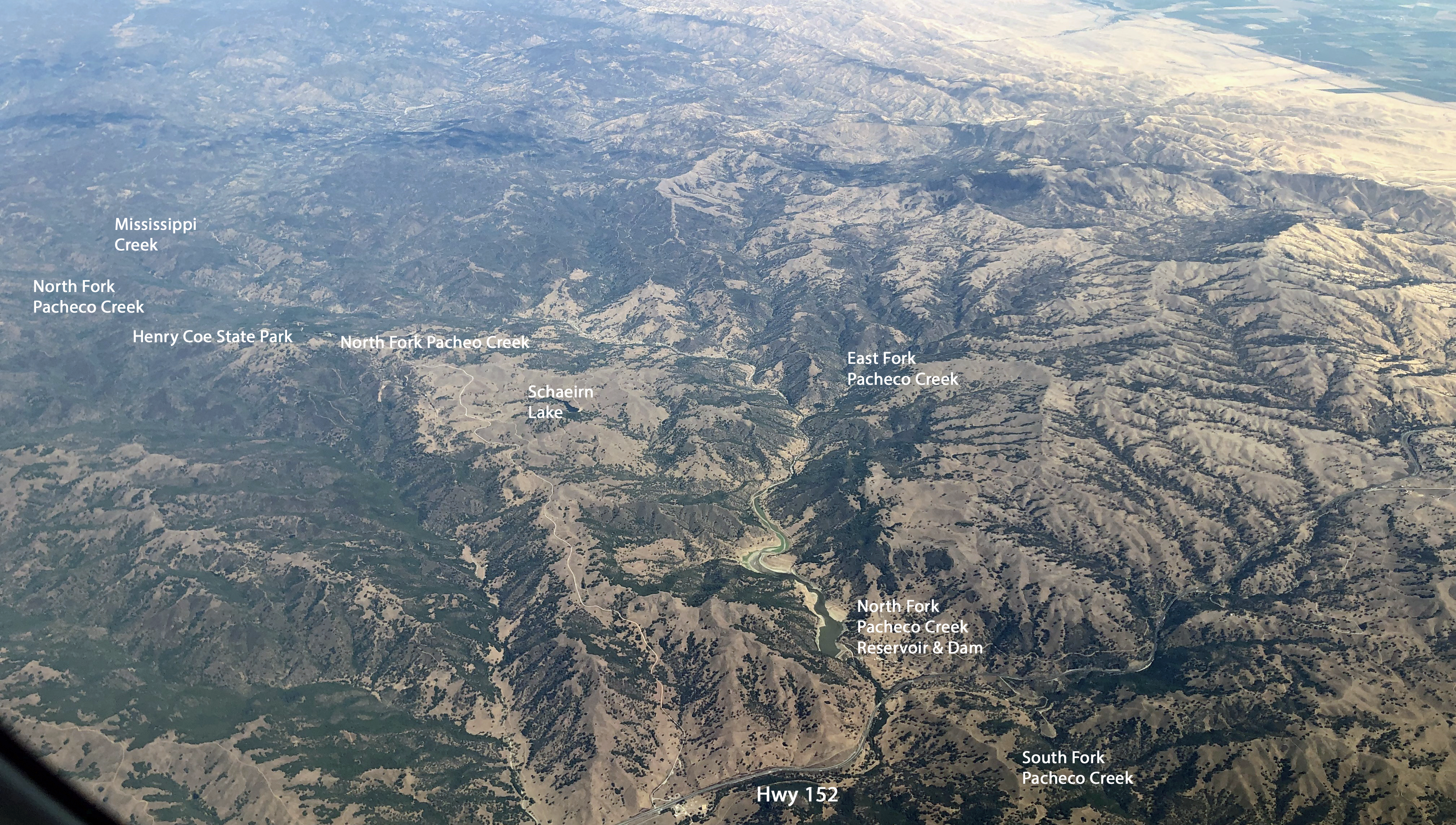 Aerial Photo of North Fork Pacheco Creek and its East Fork and Mississippi Creek tributaries in Santa Clara County in the Diablo Range of Northern California, a portion of the Central Valley which is Stanislaus County is in upper right